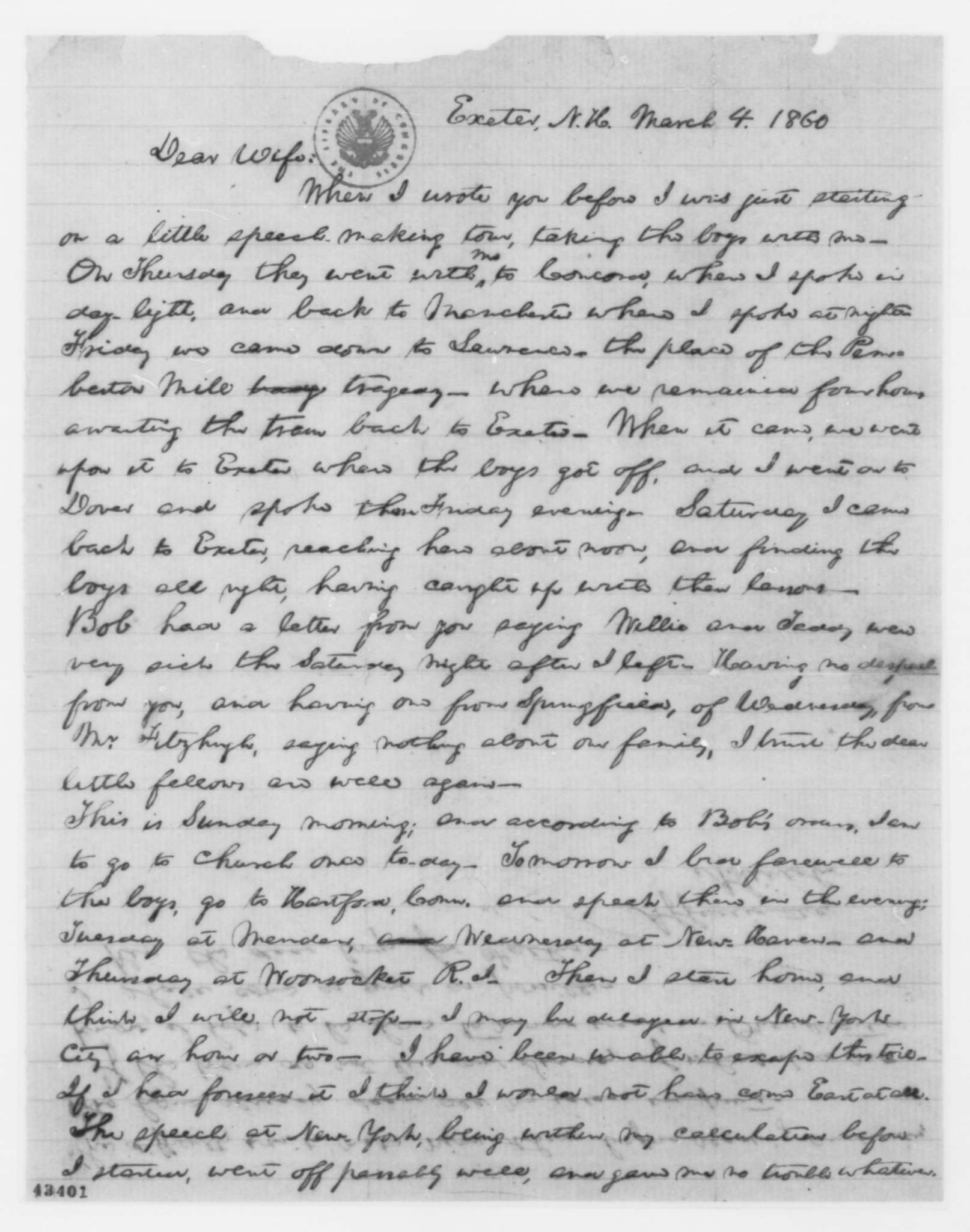 Letter from President Abraham Lincoln to his wife Mary Todd Lincoln, written while LIncoln was visiting his son Robert, who was then a student at Phillips Exeter Academy, Exeter, New Hampshire. The Abraham Lincoln Papers, General Correspondence, Library of Congress, Washington, D. C. [1]